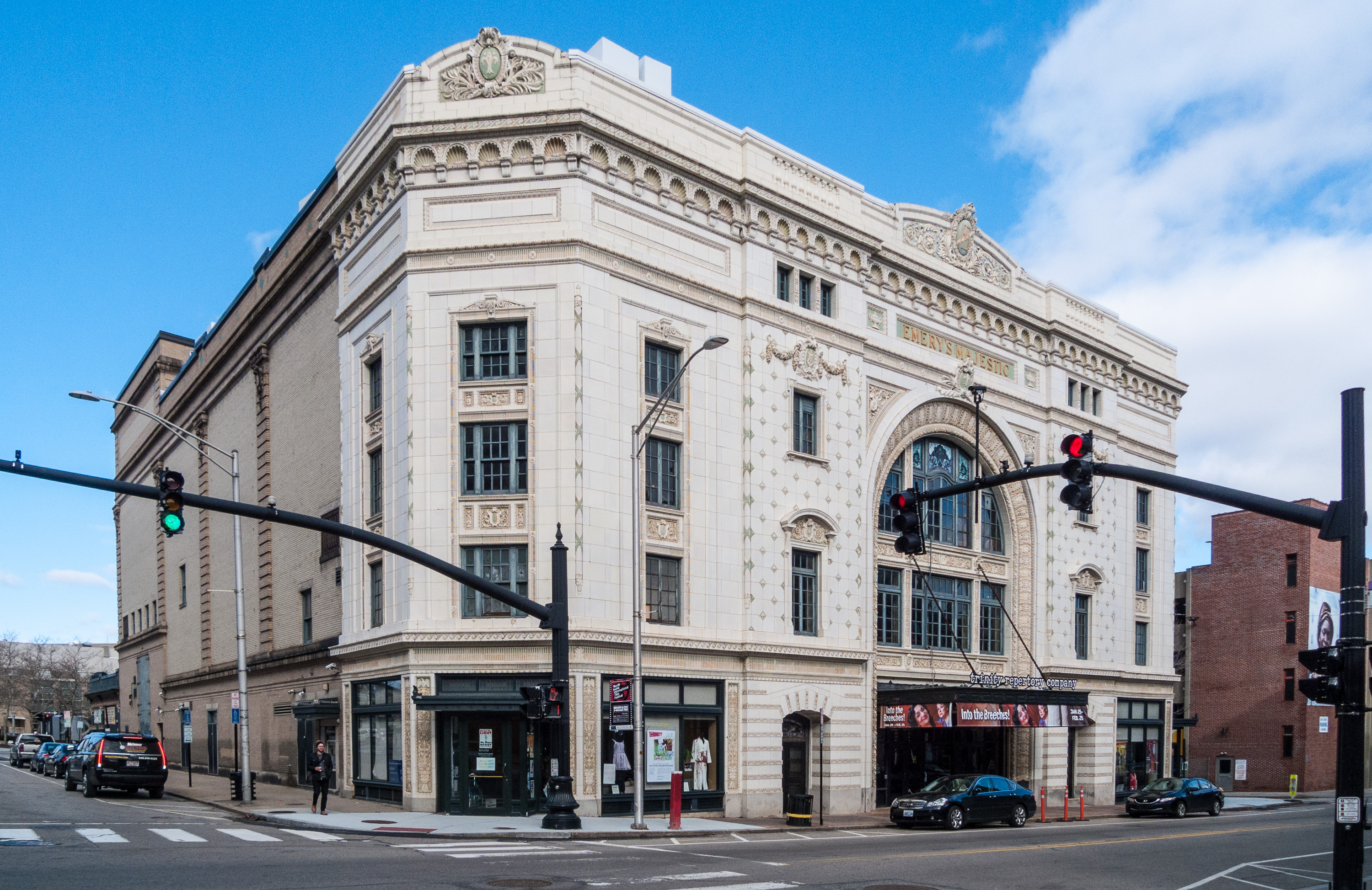 Trinity Reperatory Company, Providence, Rhode Island. Formerly Emery's Majestic theatre.